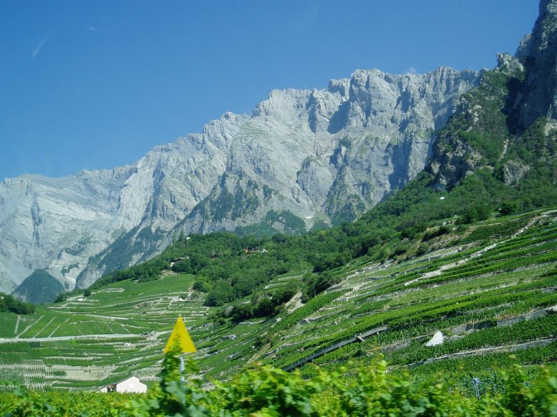 Haut de Cry - Chamoson (2969 m)